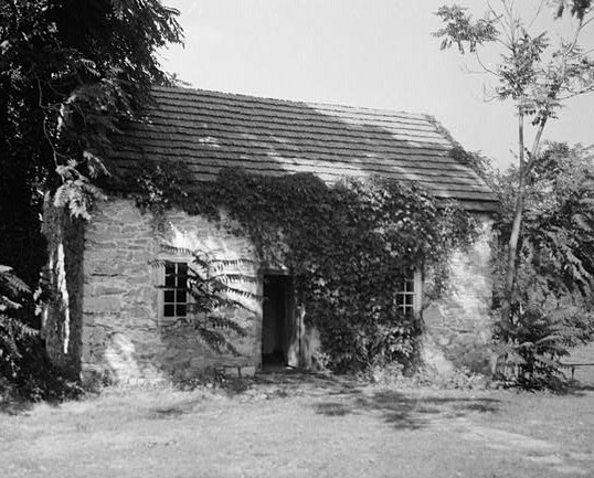 Greenway Court Estate Office (Clarke County, Virginia).(cropped)